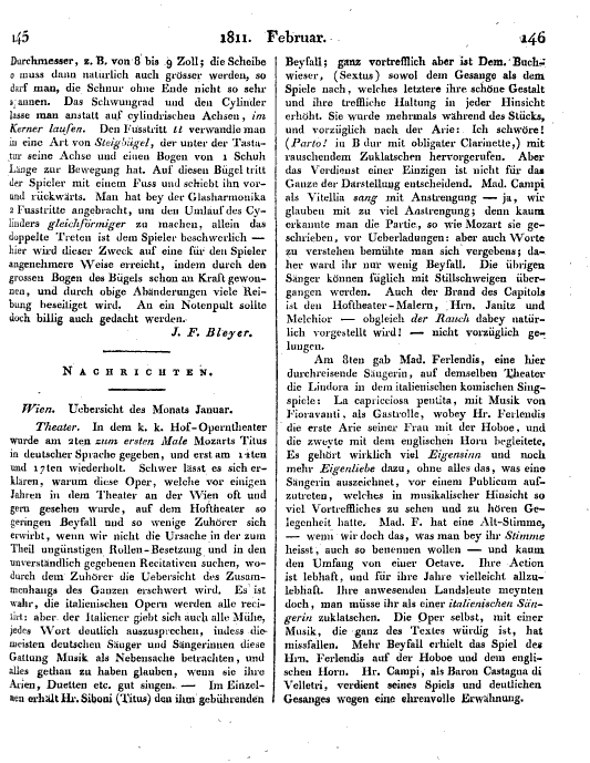 Seite 145 Titel ALLGEMEINE MUSIKALISCHE ZEITUNG. Autor DREYZEHNTER JAHRGANG Veröffentlicht 1811 Original von Oxford University Digitalisiert 19. Sept. 2008